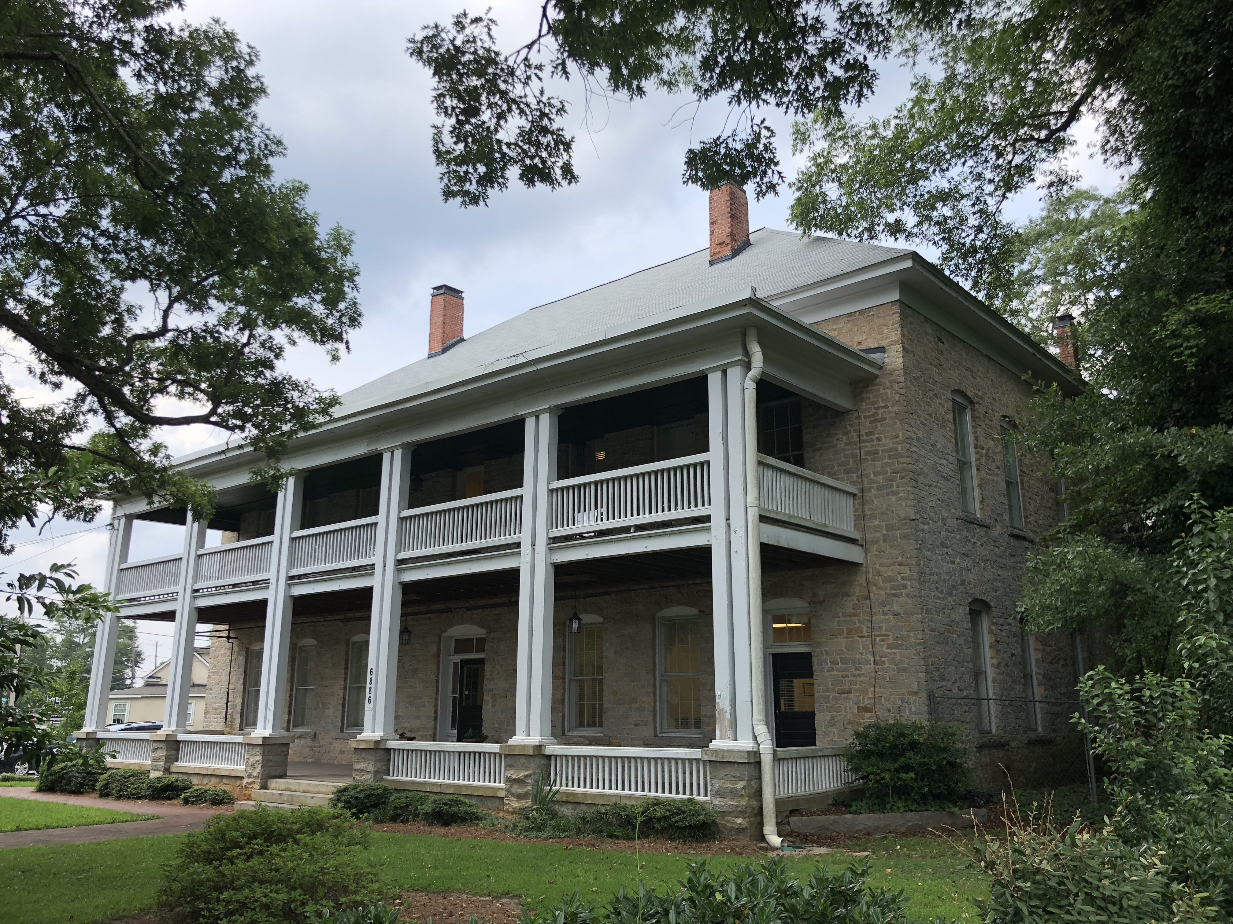 Another view from the front of the building showing the veranda.